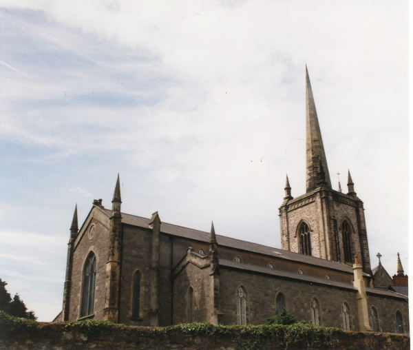 St Macartin's Cathedral, Enniskillen, Co Fermanagh, Ireland.